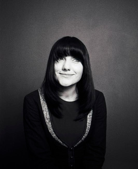 Iinga Oboldina